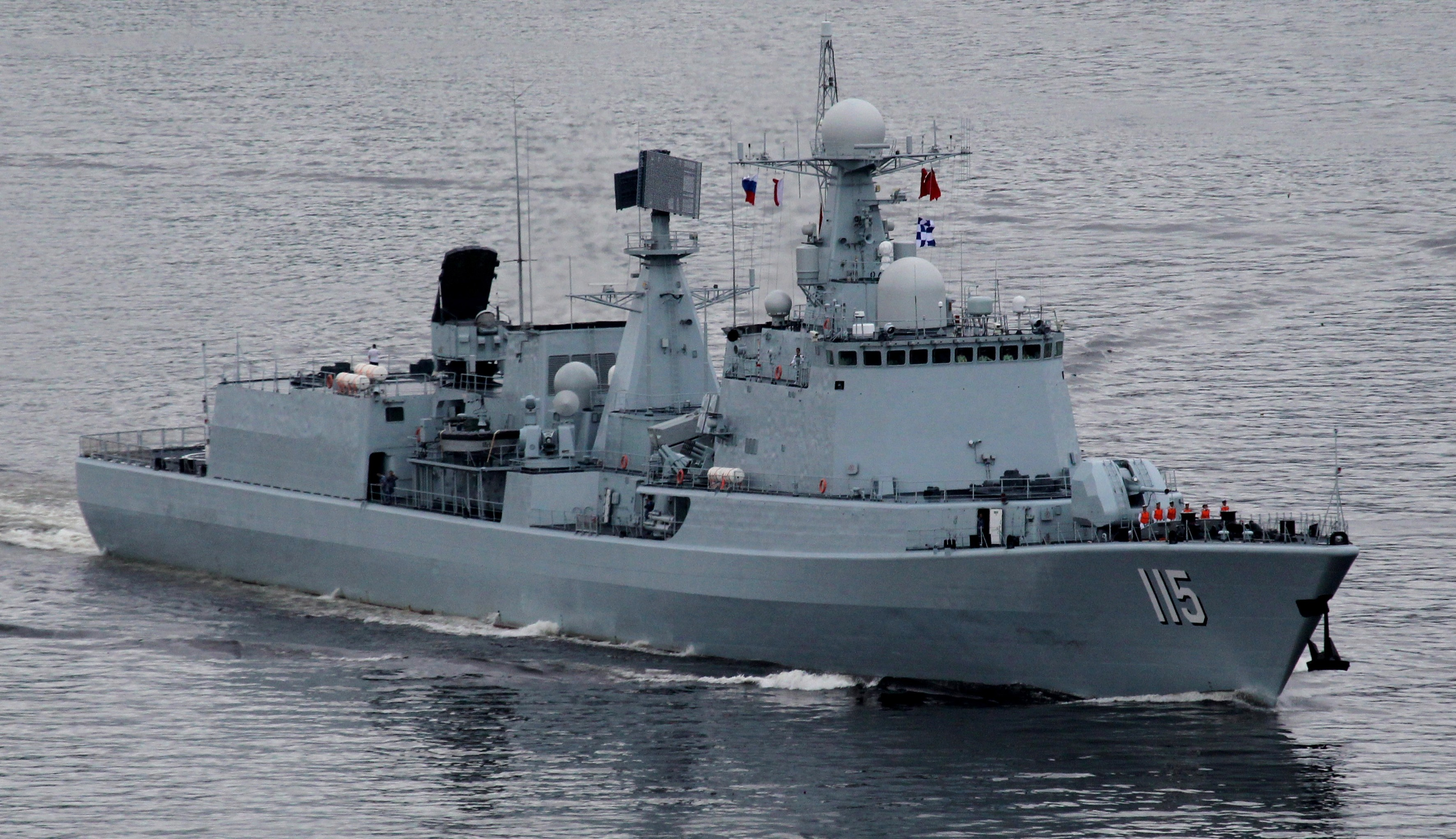 The Shenyang destroyer of the Chinese Navy heads to sea during the Russian-Chinese naval drill Naval Cooperation 2015, Vladivostok.